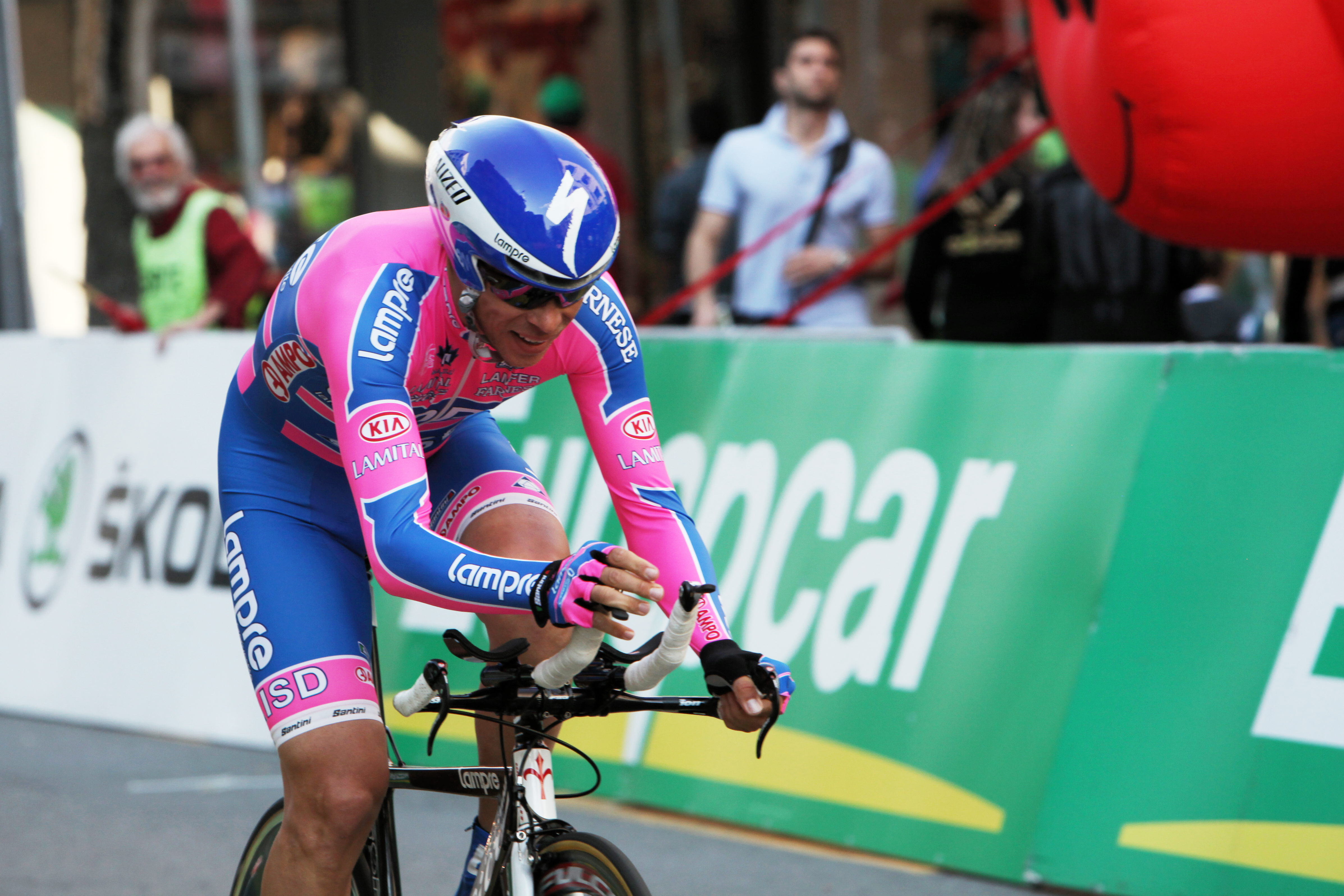 Andrey Kashechkin at the prologue of the Tour de Romandie 2011